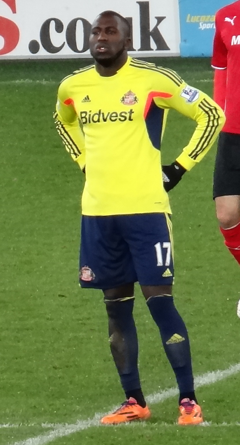 Jozy Altidore of Sunderland playing against Cardiff City